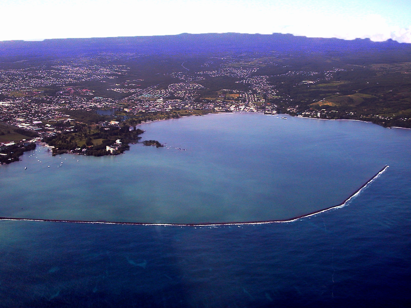 Aerial photo of Hilo Bay, Hawaii.